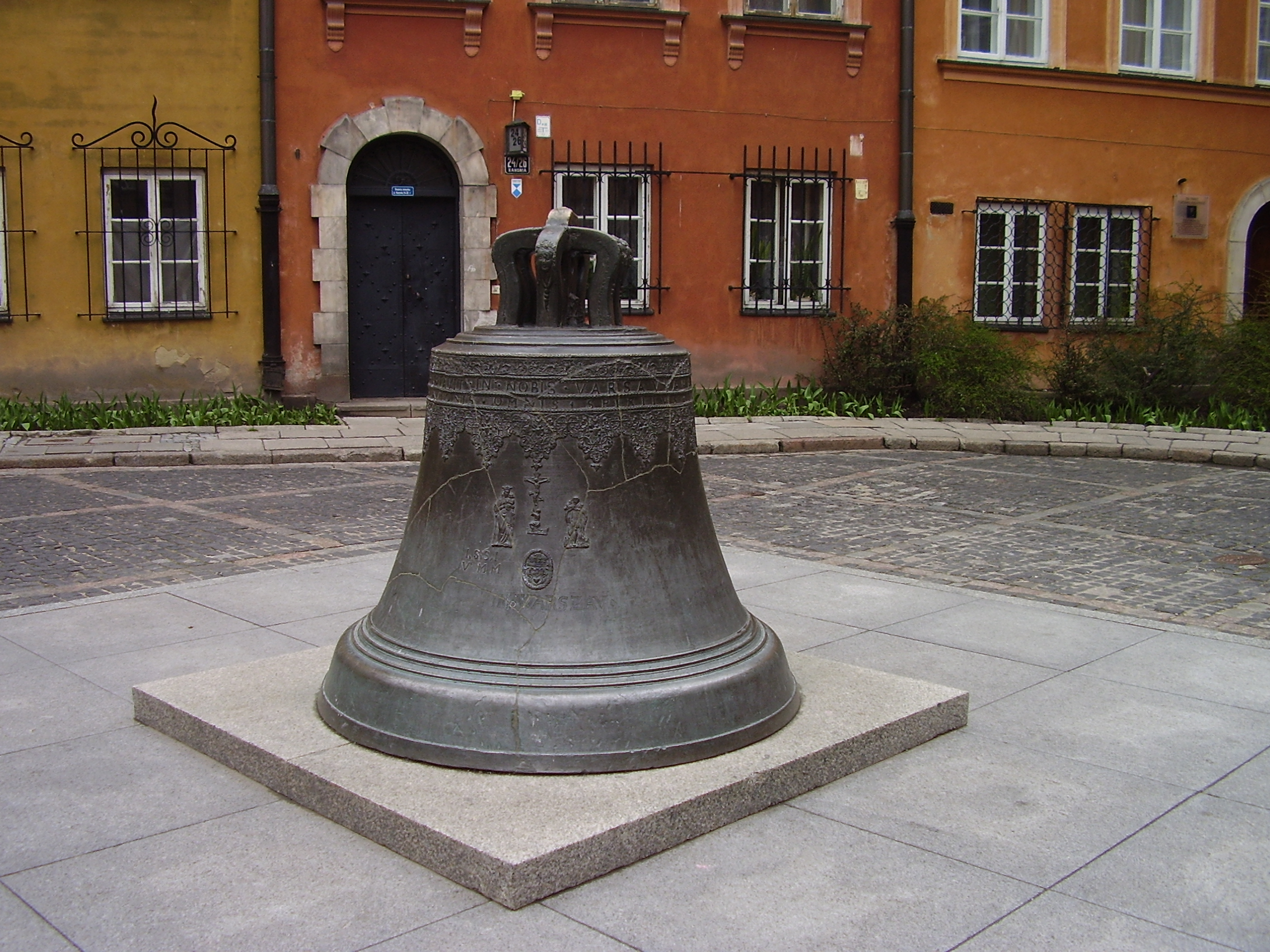 Warsaw during Easter 2008